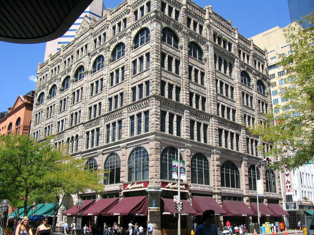 Marlowes, Denver, Colorado